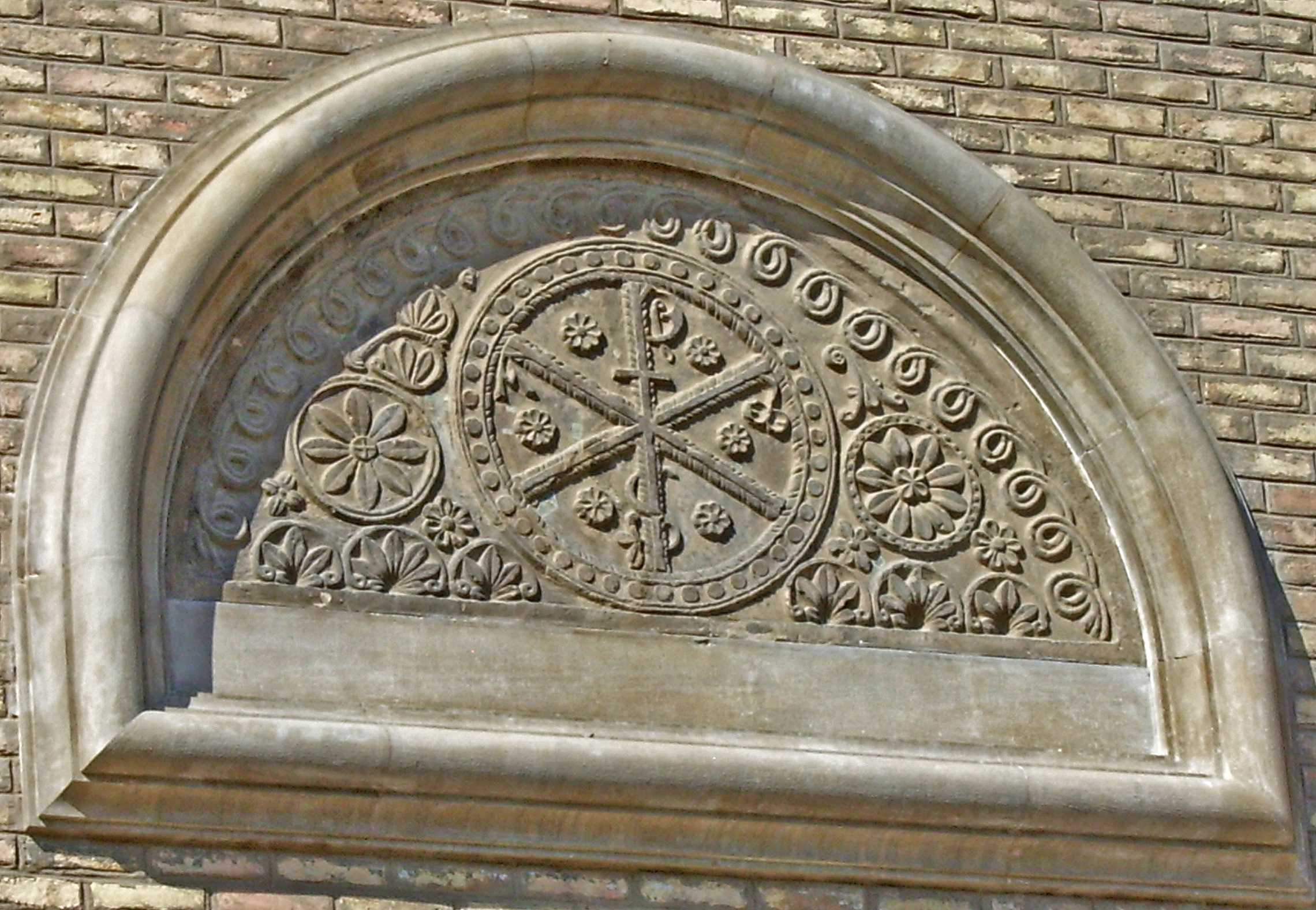 The Pillar - Tympanum of primitive romanesque church